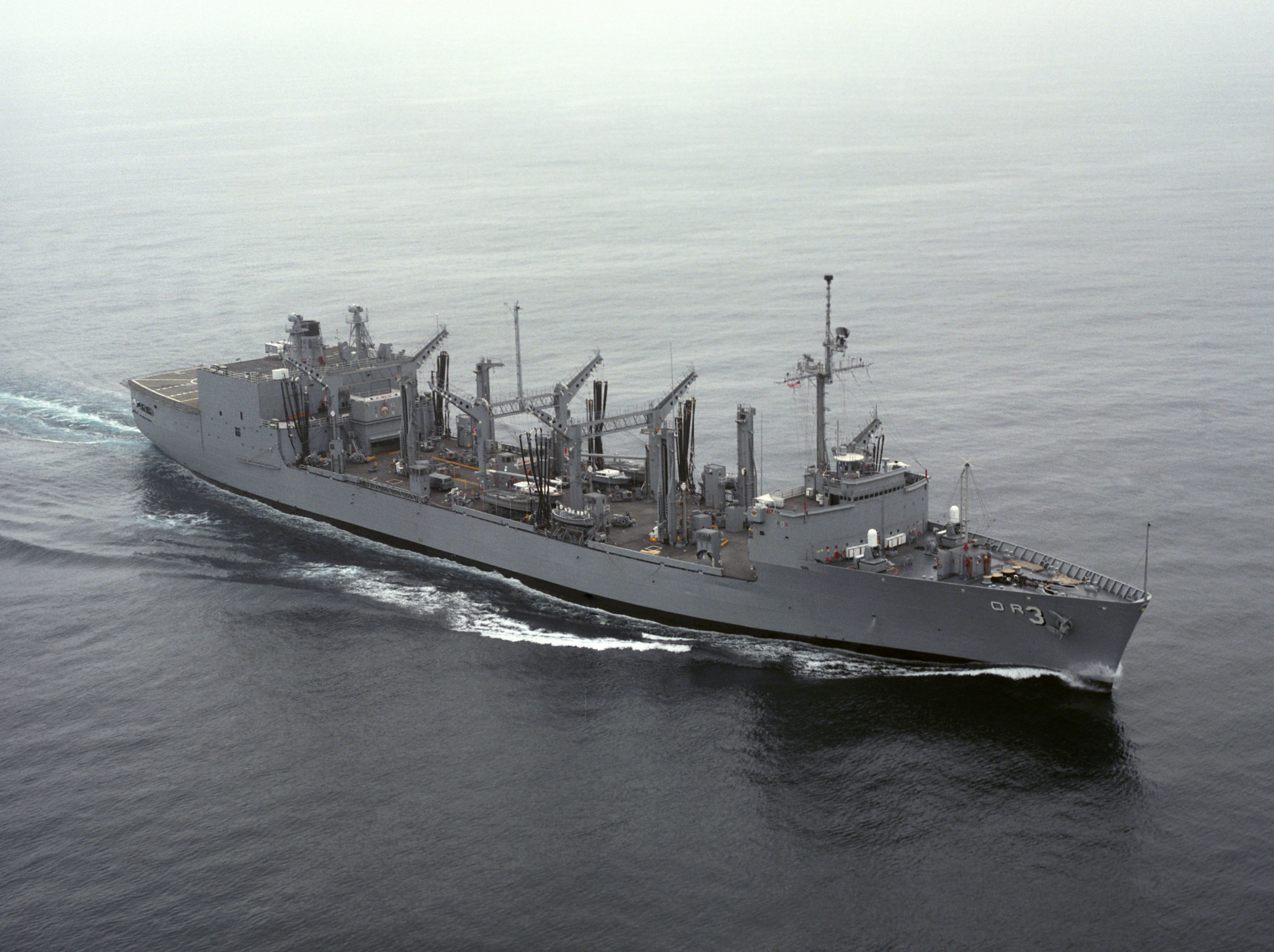 The U.S. Navy replenishment oiler USS Kansas City (AOR-3) underway in the Pacific Ocean on 2 July 1987.